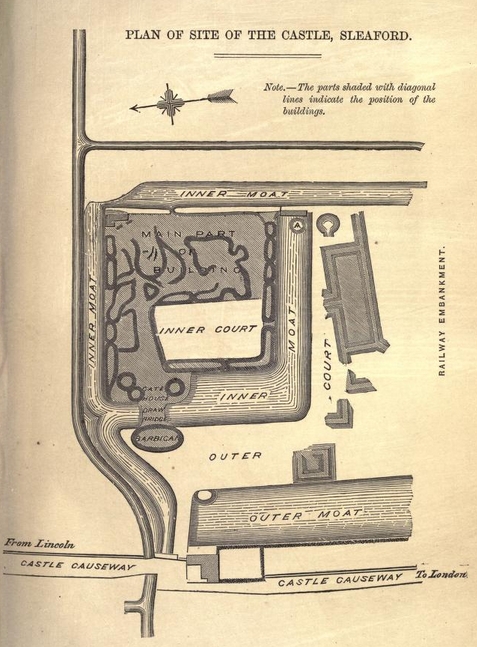 Plan of Sleaford Castle from Sleaford, and the wapentakes of Flaxwell and Aswardhurn (1872)